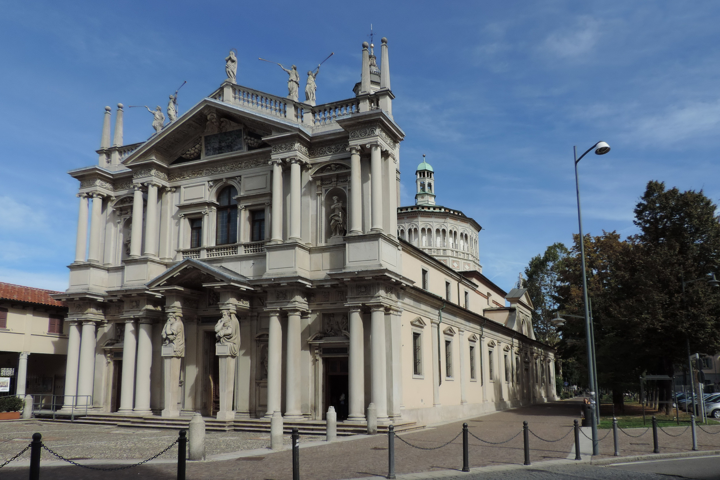 Santuario della Beata Vergine dei Miracoli, Saronno, Lombardy, Italy Santuario della Beata Vergine dei Miracoli Native nameSantuario della Beata Vergine dei MiracoliLocationSaronno, Lombardy, ItalyCoordinates45° 37′ 35″ N, 9° 01′ 32″ E Authority control : Q3471763